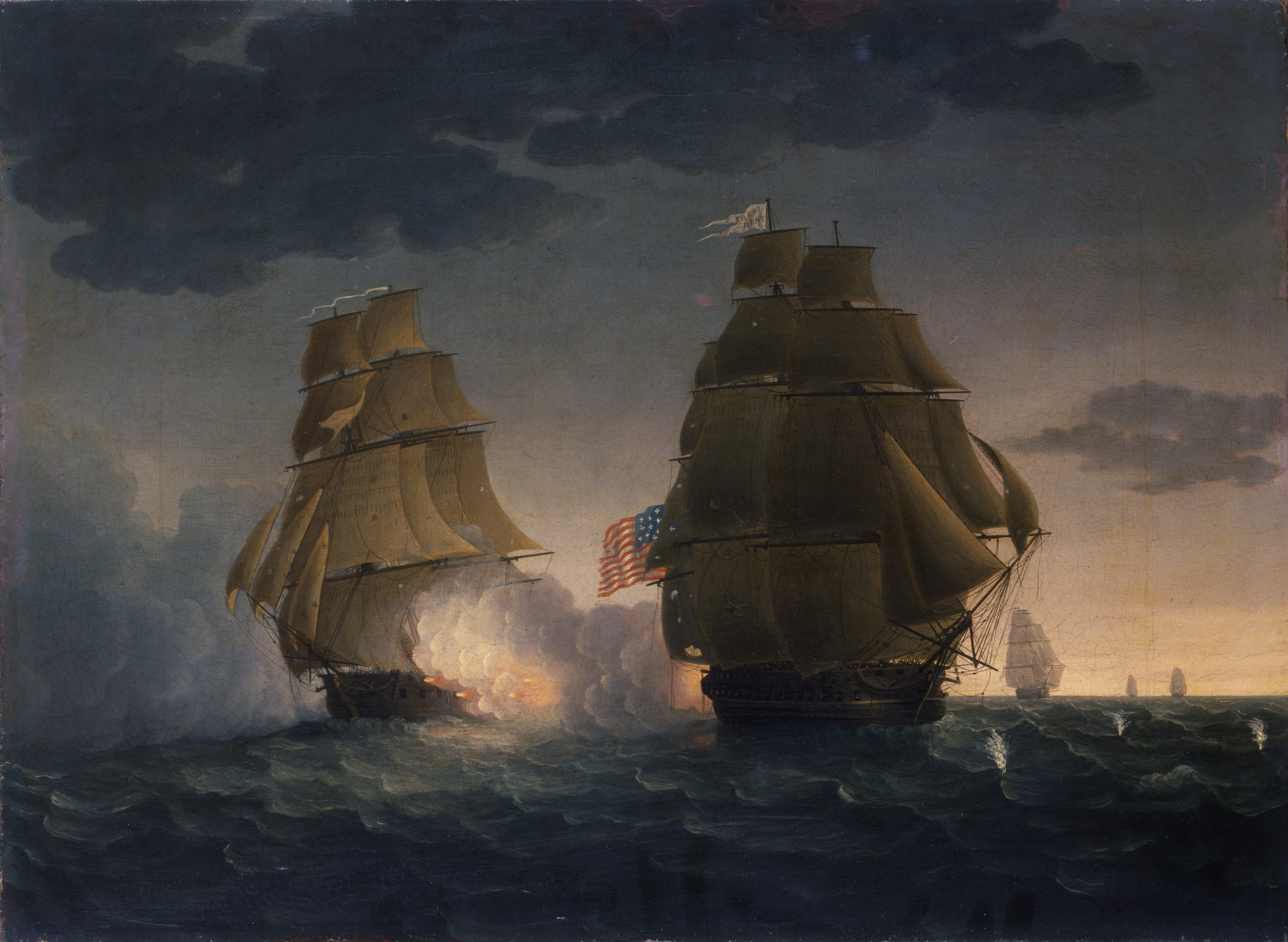 A Thomas Buttersworth painting at first, thought to be HMS Belvidera escaping from USS President, this painting depicts the HMS Endymion yawing to rake USS President at dusk as President is ahead of the British frigate and has her after sails cut while the British frigate has her foresails cut. Furthermore, the British frigate in the painting and HMS Endymion were painted all black which was extremely unusual for ships of that size at the time.